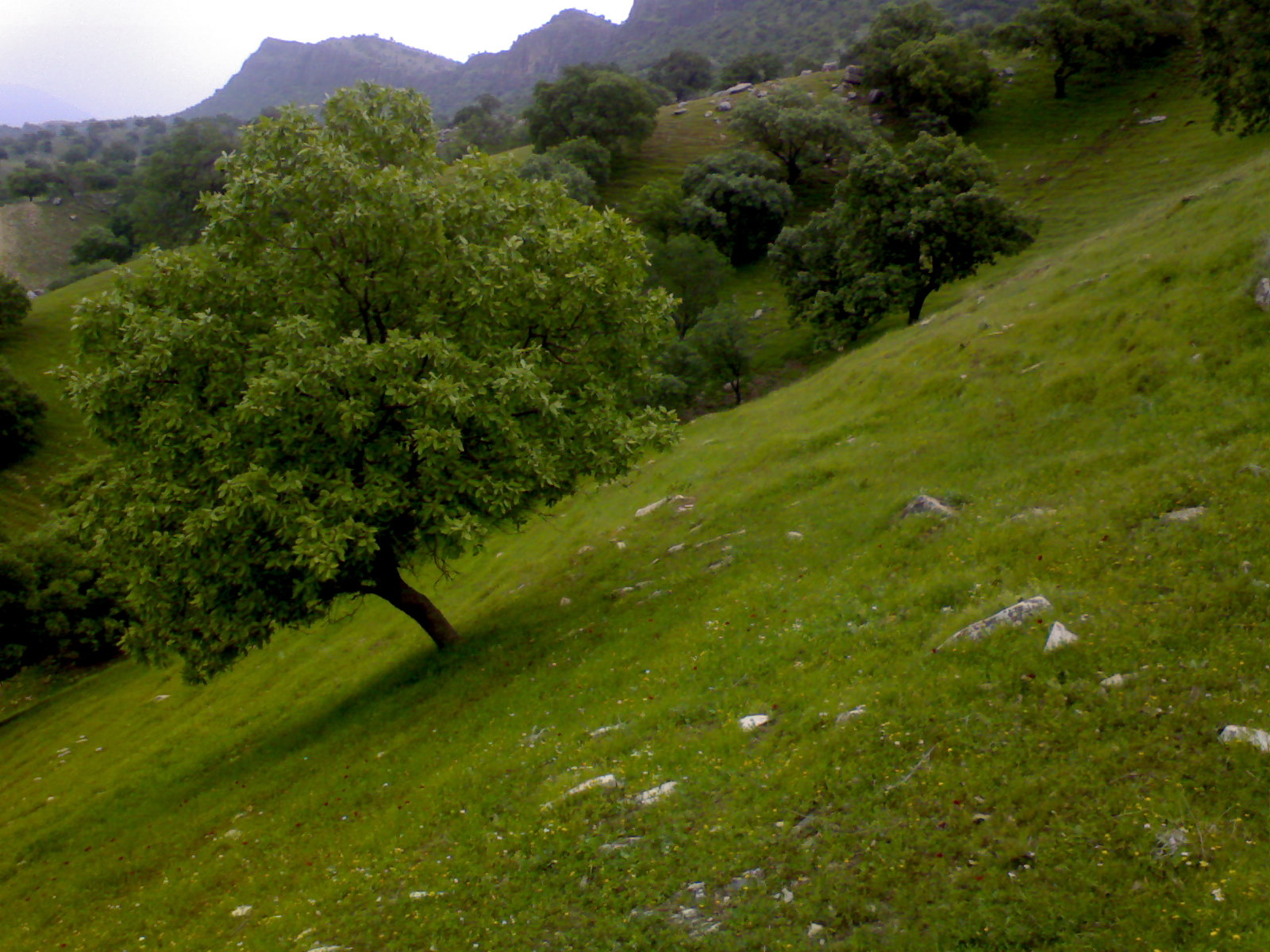 Shelaldoon